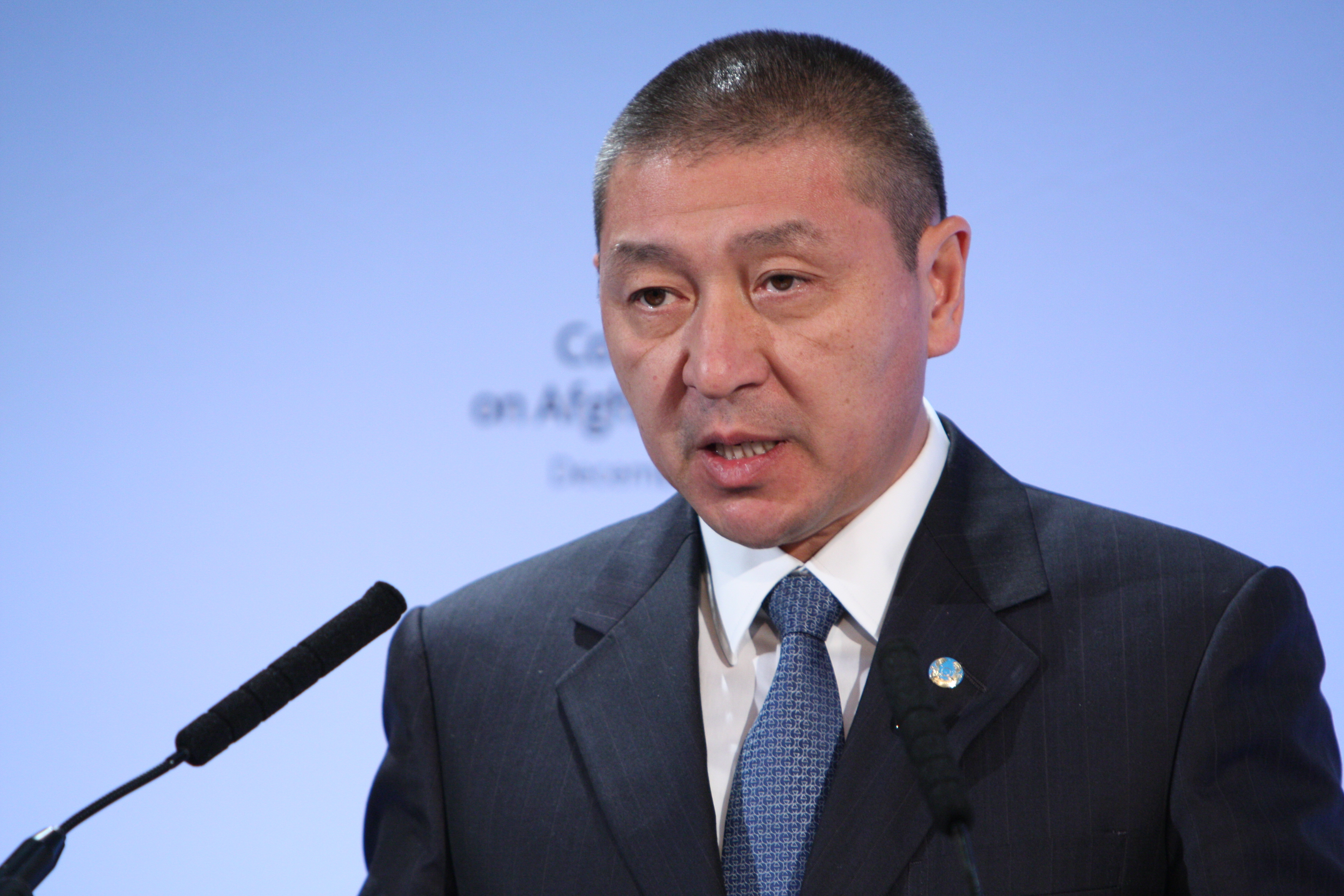 The London Conference on Afghanistan takes place on 4 December 2014, co-hosted by the governments of the UK and Afghanistan. The Conference brings together the Afghan government and international community in support of a secure and peaceful future for Afghanistan. Find out more at: Picture: Patrick Tsui/FCO Free-to-use photo This image is posted under a Creative Commons - Attribution Licence, in accordance with the Open Government Licence. You are free to embed, download or otherwise re-use it, as long as you credit the source as ‘Patrick Tsui/FCO’.